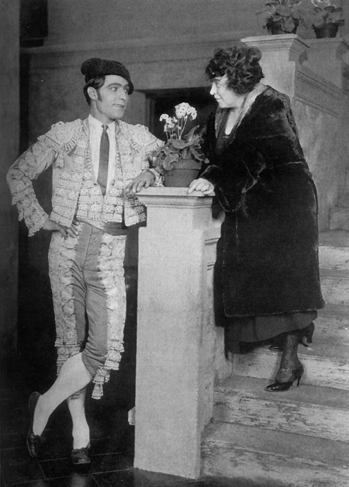 promotional image of screen writer June Mathis on the set of Blood and Sand with star Rudolph Valentino